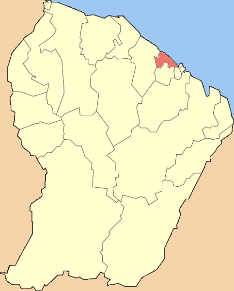 Made map myself.